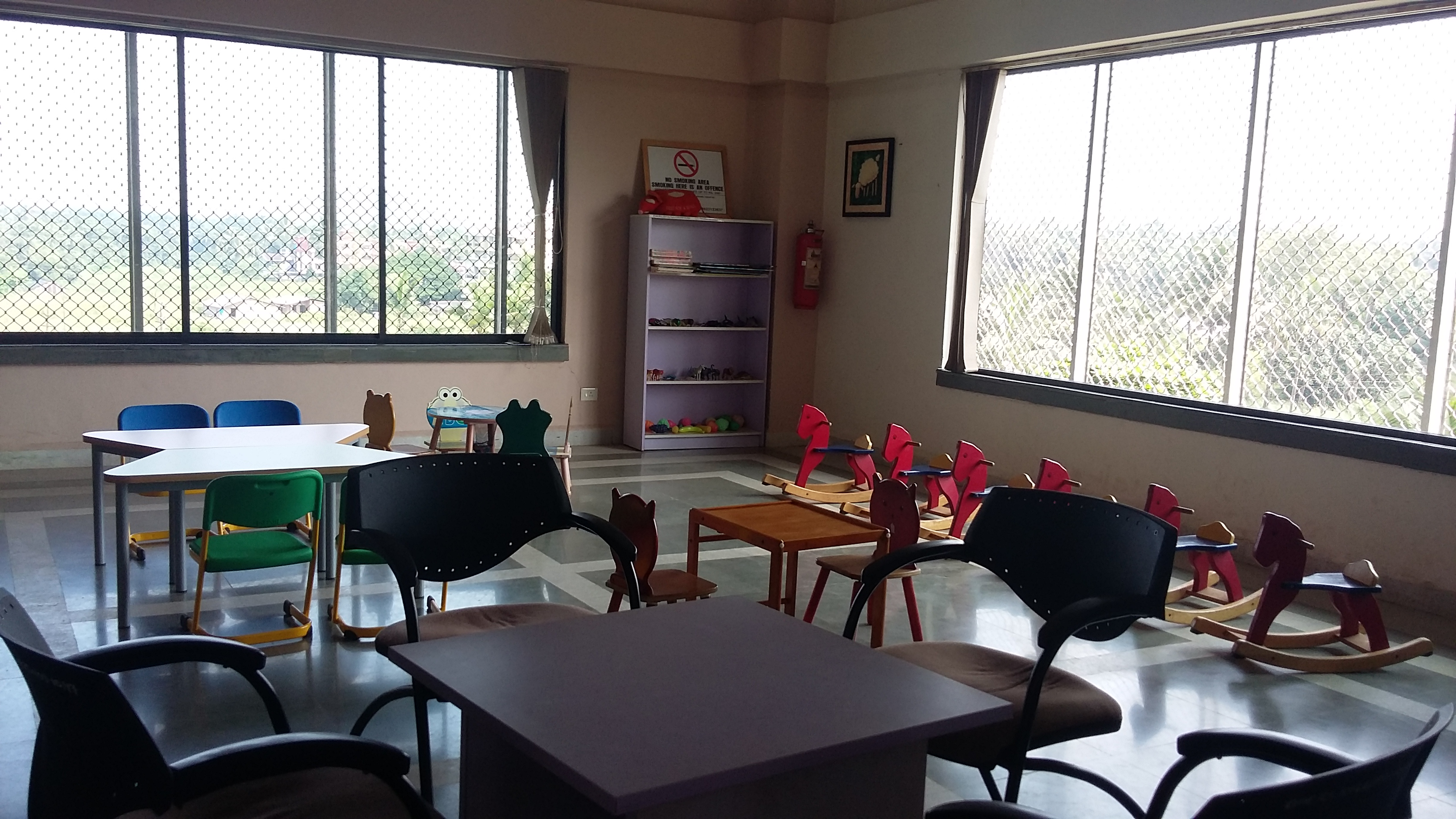 Kids play section